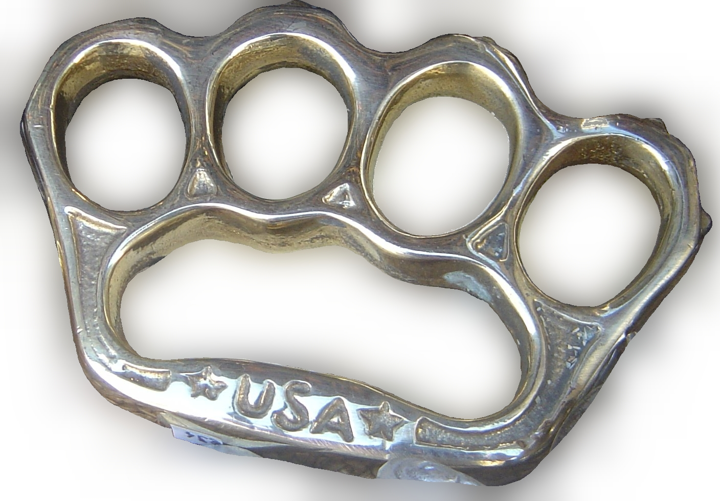 Brass knuckles, from the window display of the Armurerie de la Bourse in Paris Copyright © 2005 David Monniaux